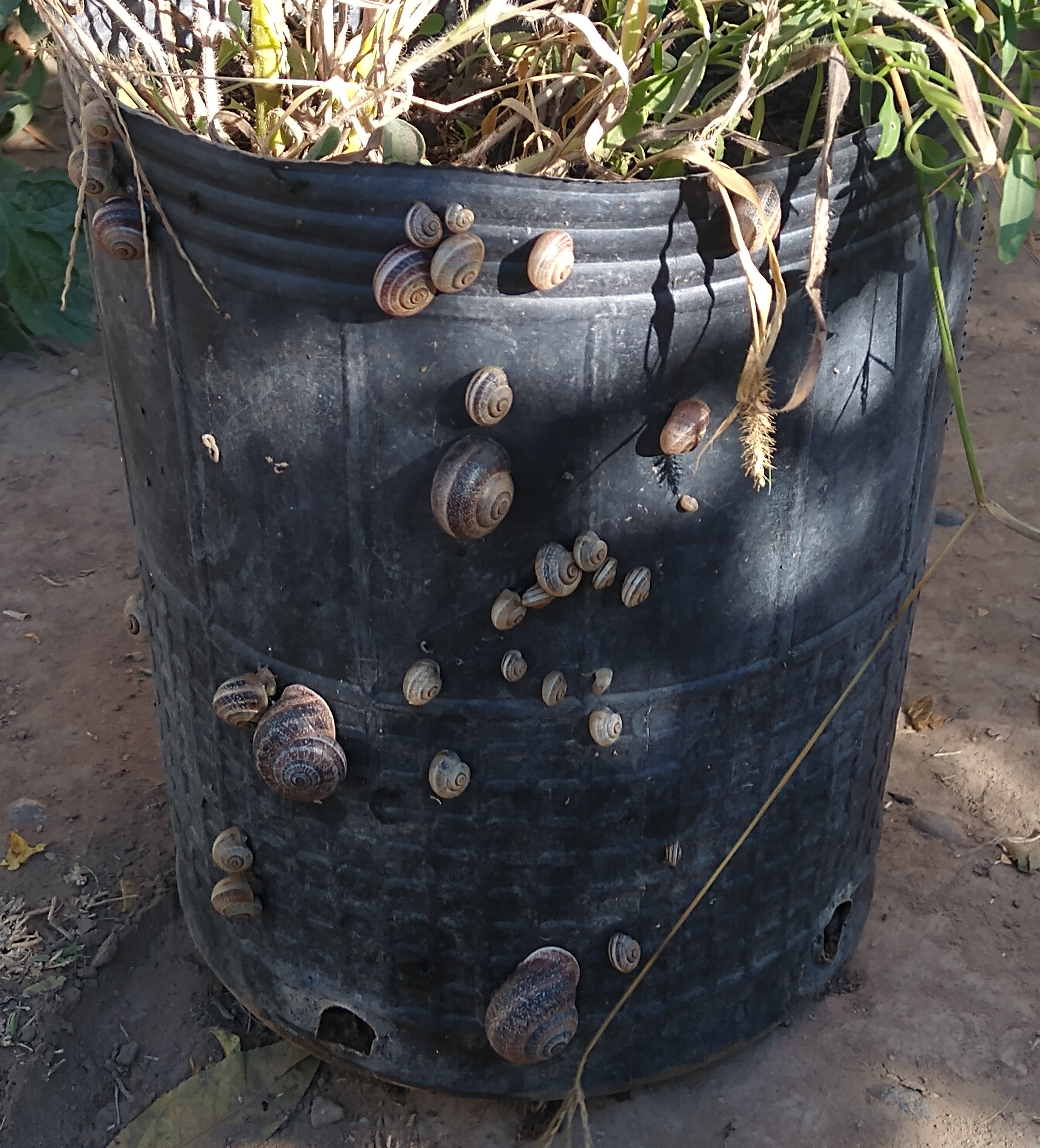 Plaga de caracoles de jardin